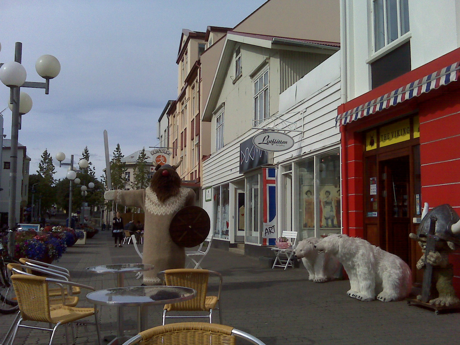 Akureyri, Iceland. View of the main shopping street, August 2009.